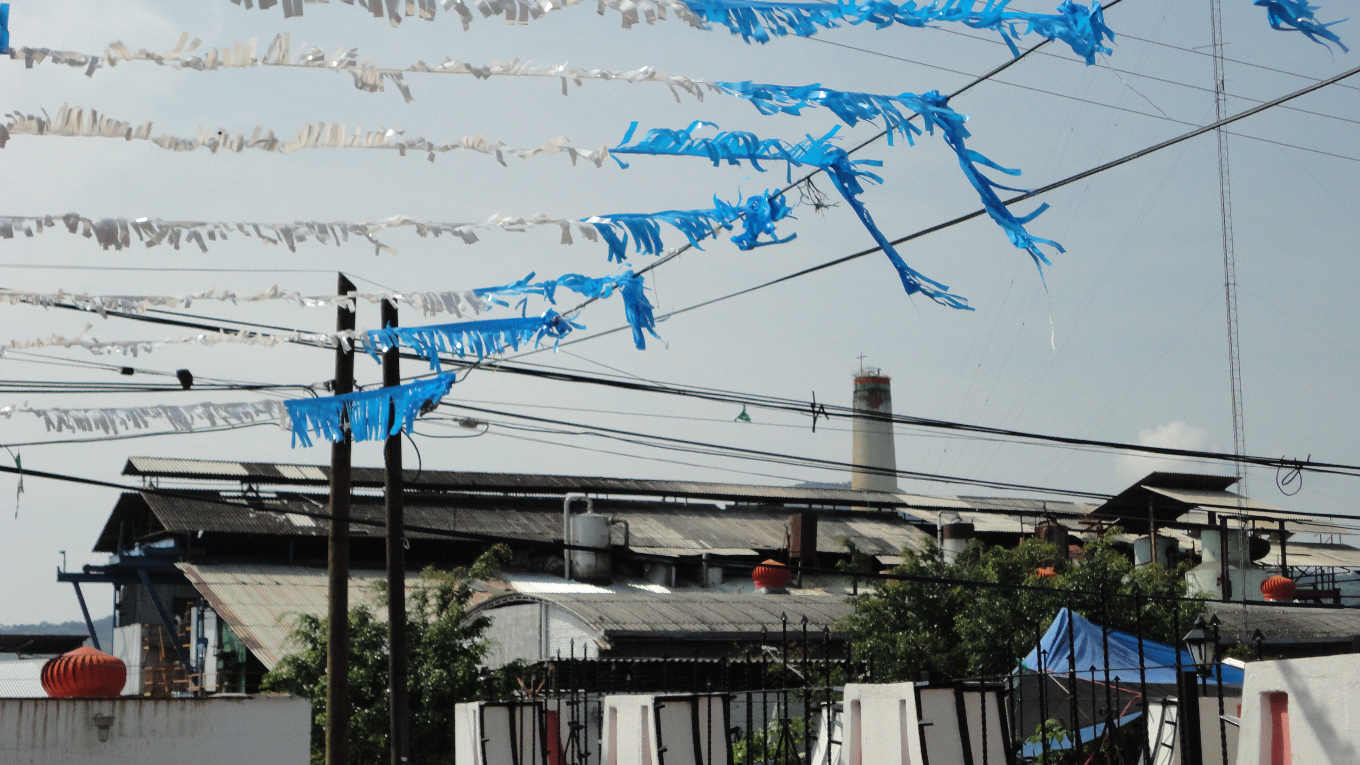 Foto desde la Capilla de Señora de la Salud